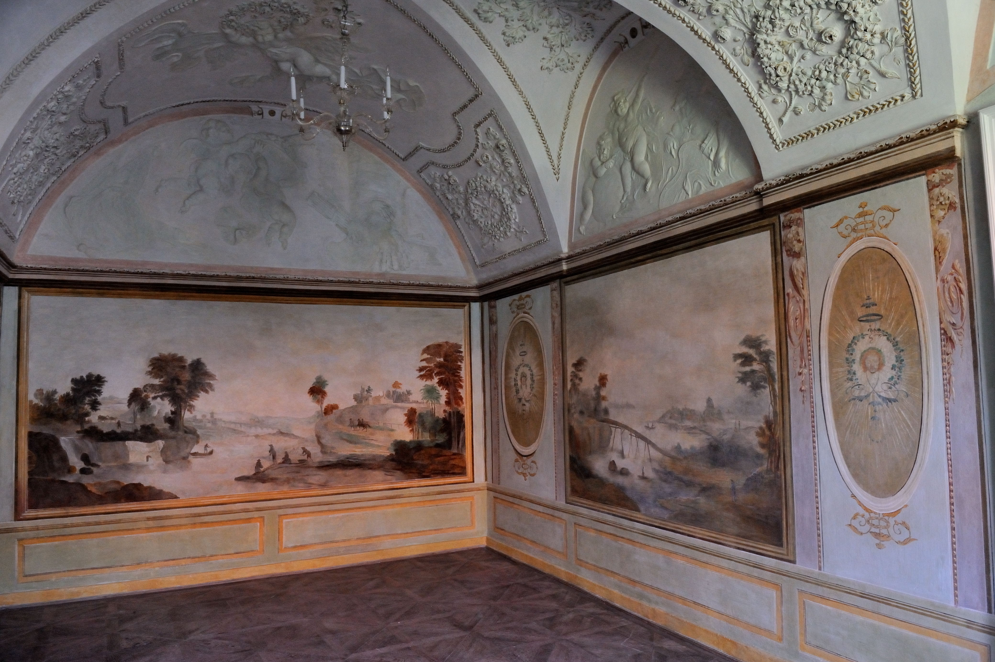 Uherčice castle